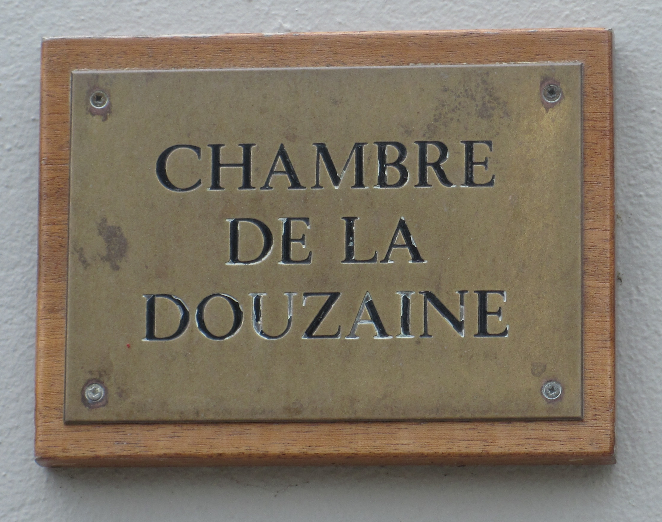 Torteval, Guernsey Nrf: Tortévas (Guernési)